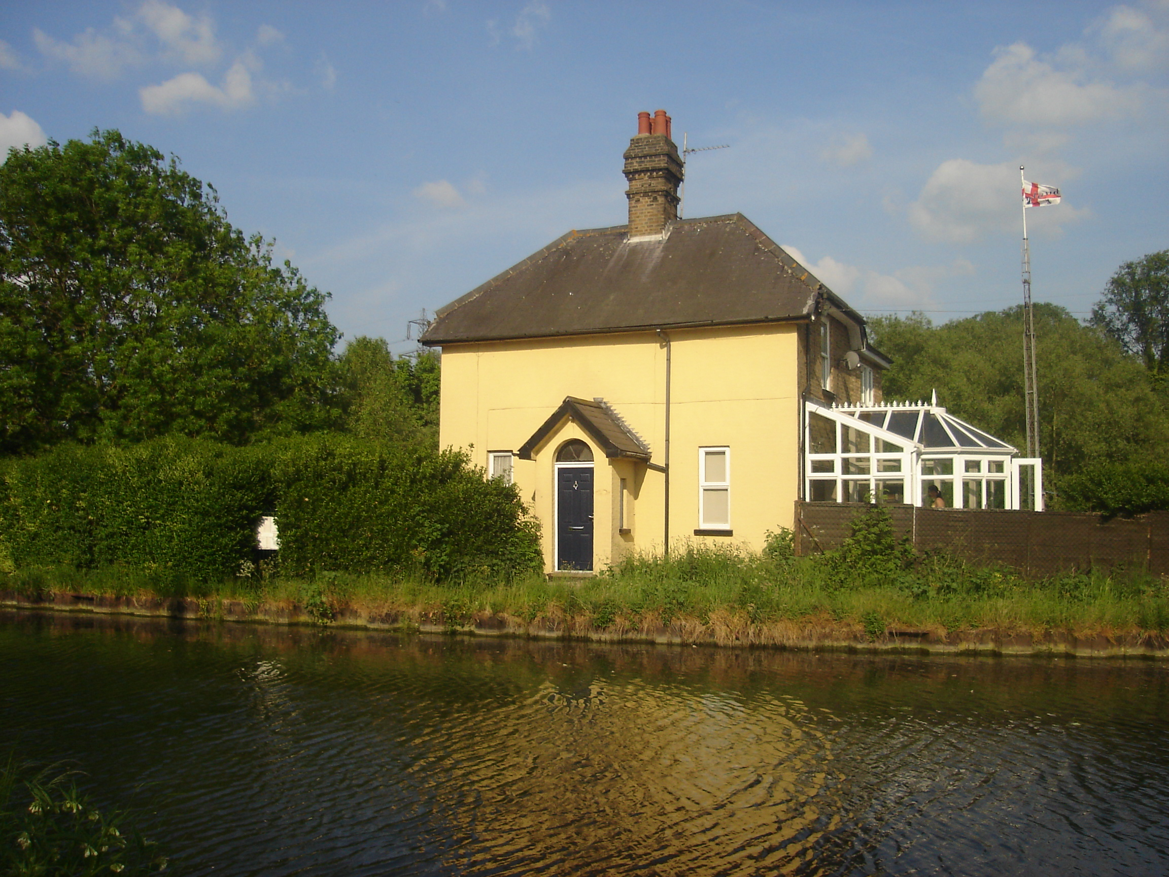 The weir-keeper's cottage at Kings Weir, Essex. The photo was taken from the Hertfordshire bank of the River Lee Navigation which forms the boundary between Hertfordshire and Essex at this point.